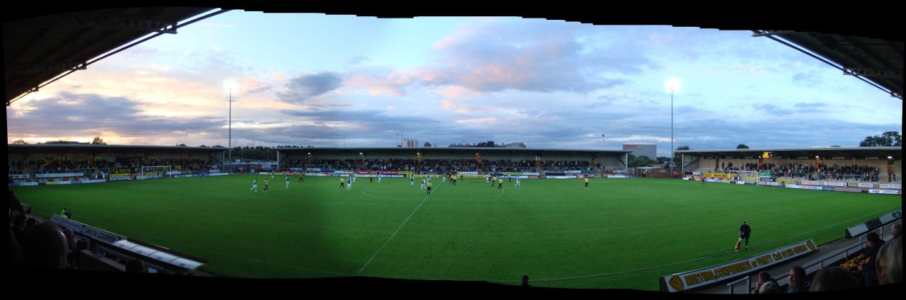 Burton Albion 1 Northwich Victoria 1, Pirelli Stadium, August 12 2008, we were robbed!